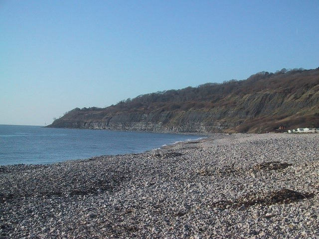 Looking west from 'The Cobb'